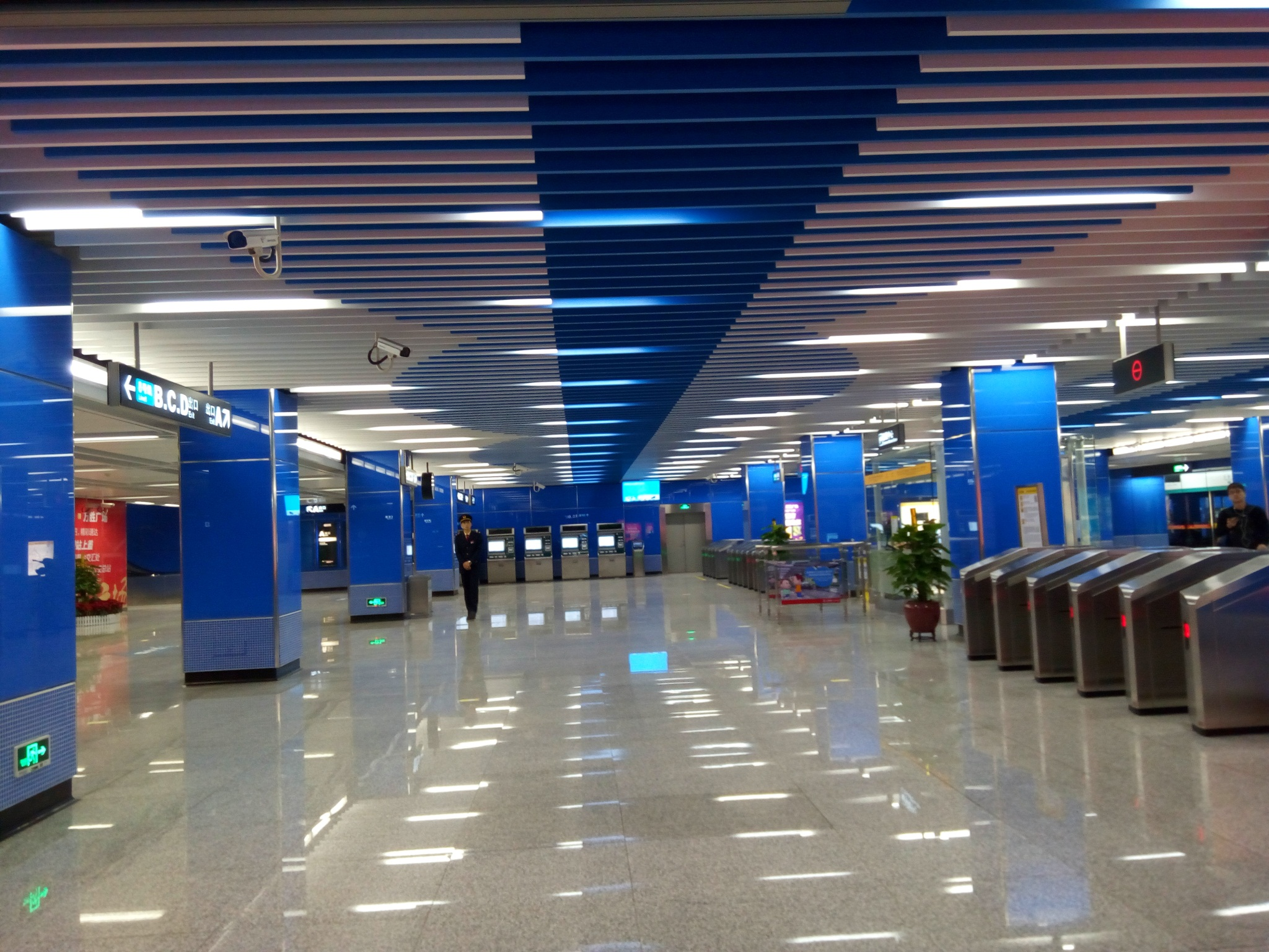 萬勝圍站嘅A口專用站廳